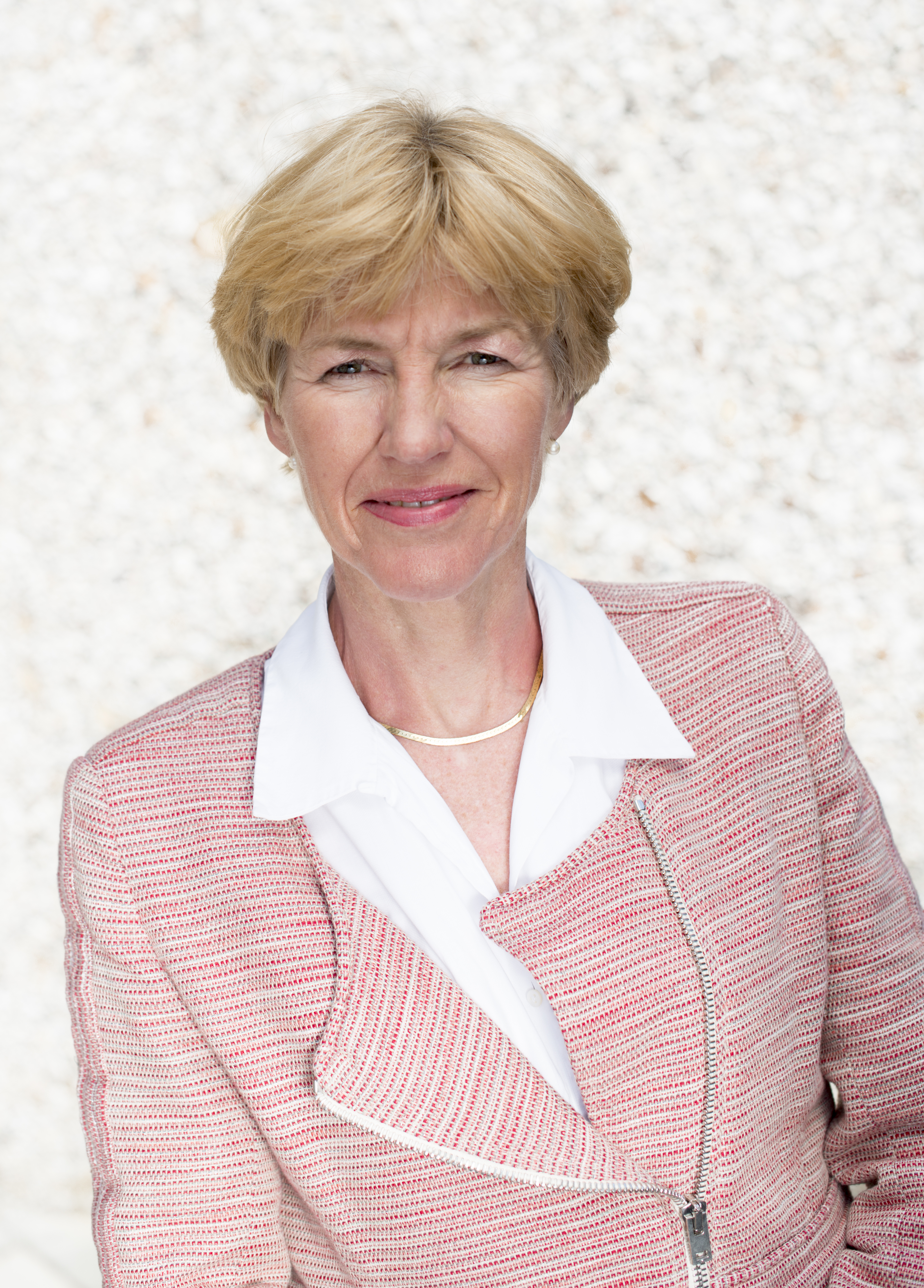 Kartverkssjef Anne Cathrine Frøstrup. Foto: Morten Brun Director General, The Norwegian Mapping Authority